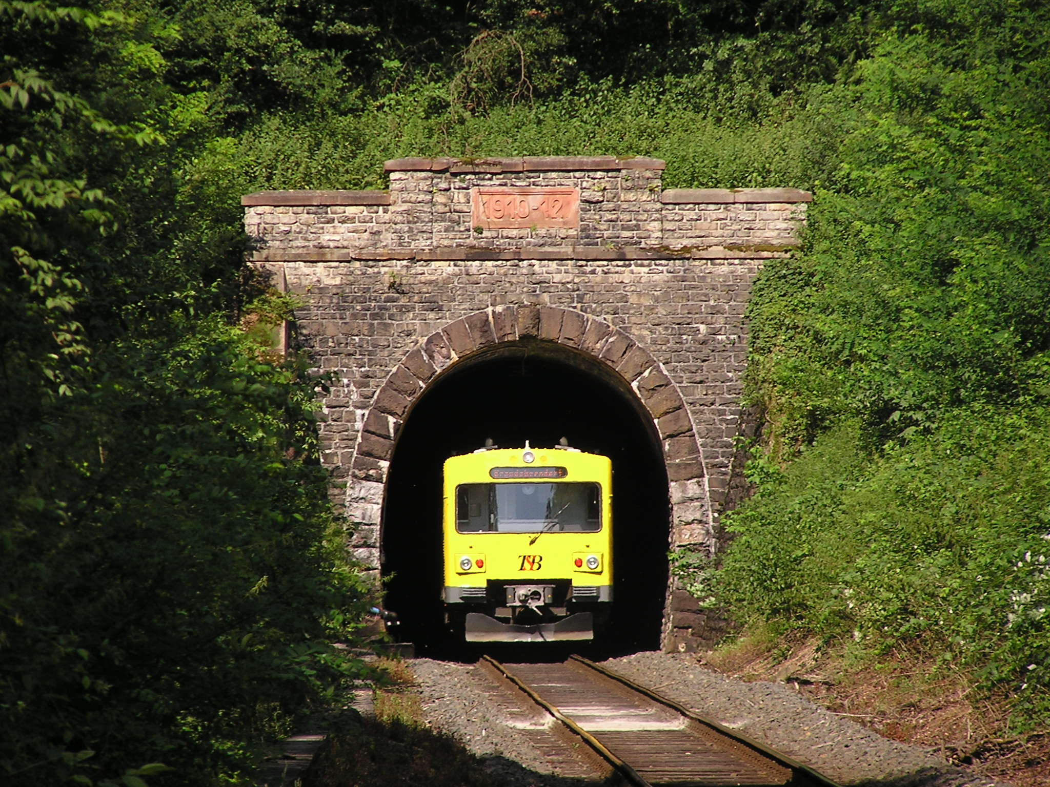 A VT 2E of the Taunusbahn hast just entered the Hasselborn Tunnel